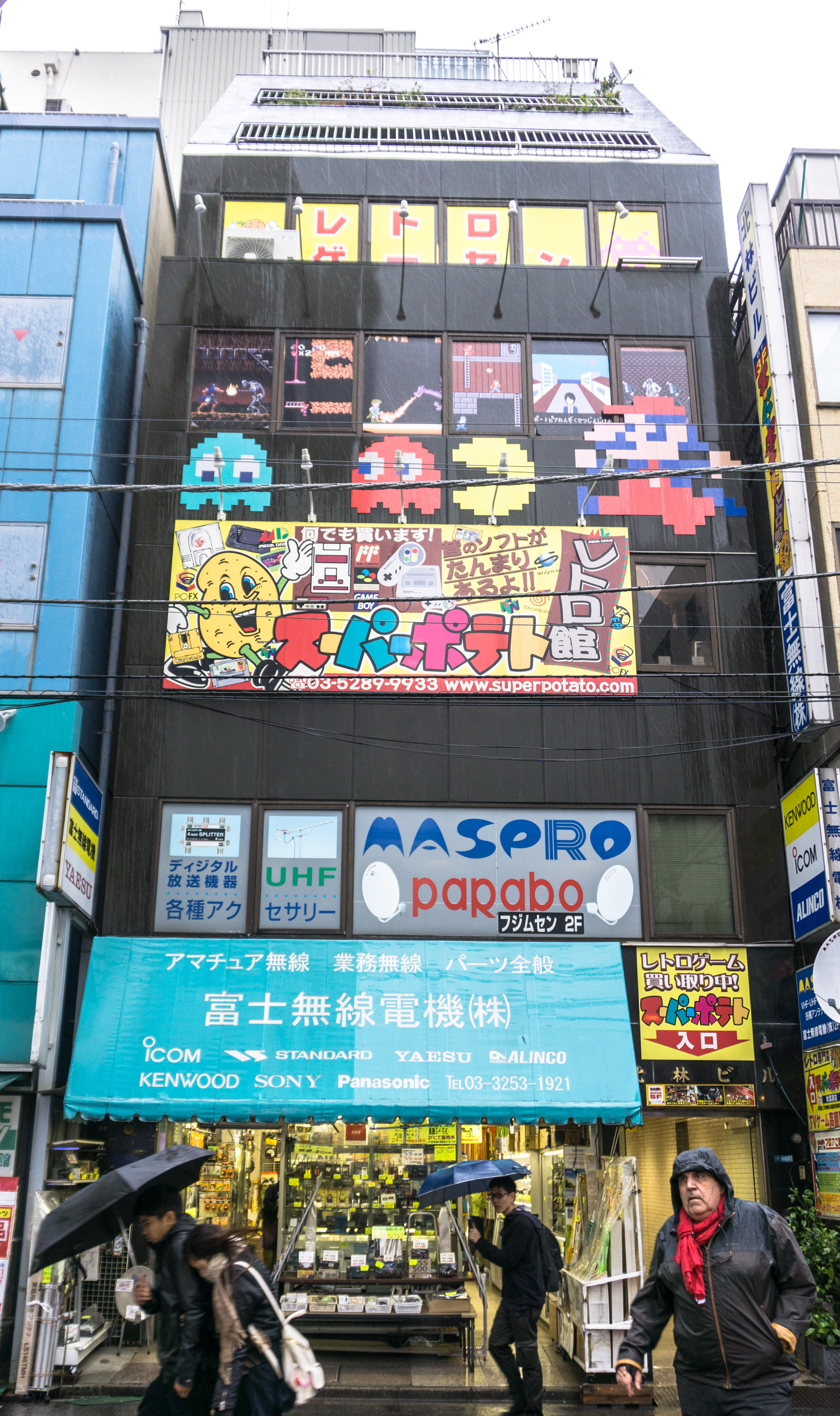 Akihabara - Super Potato Retro Game Shop Tokyo, Japan